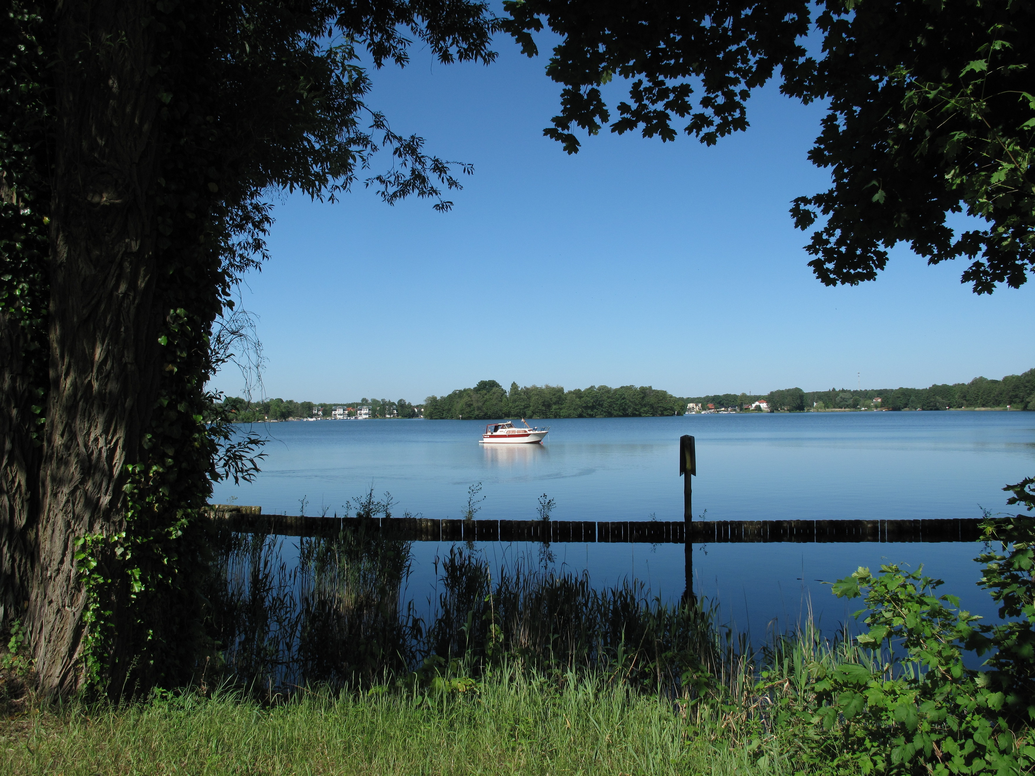 View from the on the east bank of the Werlsee to the island Lindwall (other name: Liebesinsel). The Werlsee is a lake in Fangschleuse and Grünheide, parts of the municipality Grünheide, District Oder-Spree, Brandenburg, Germany. The lake covers 60 hectare.